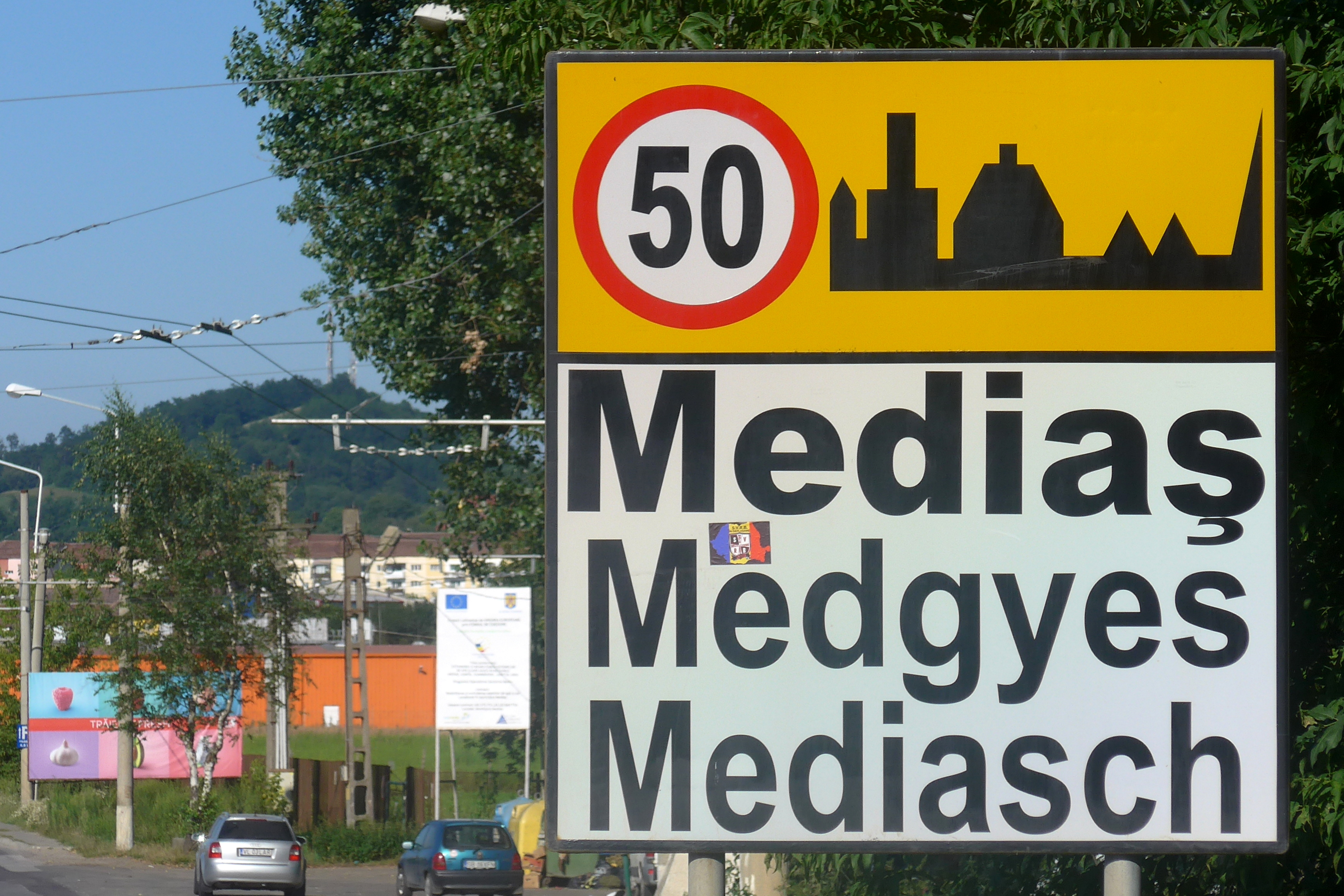 Official trilingual town sign of Medias/Mediasch in Romania